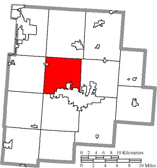 Map of the municipal and township boundaries of Fairfield County, Ohio, United States, as of the 2000 census, with the location of Greenfield Township highlighted. Township borders are shown only in unincorporated areas in order to differentiate incorporated and unincorporated areas more clearly.